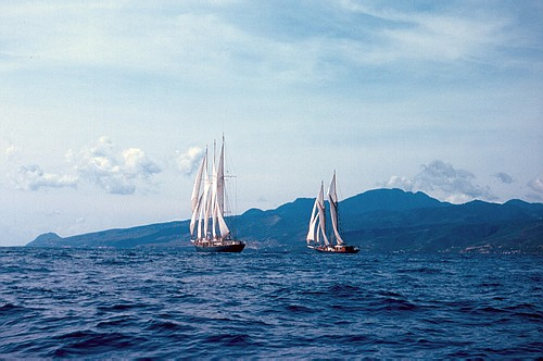 The two school ships Te Vega and teQuest of the Flint School, Florida; both ships sailed under the flag of Panama.